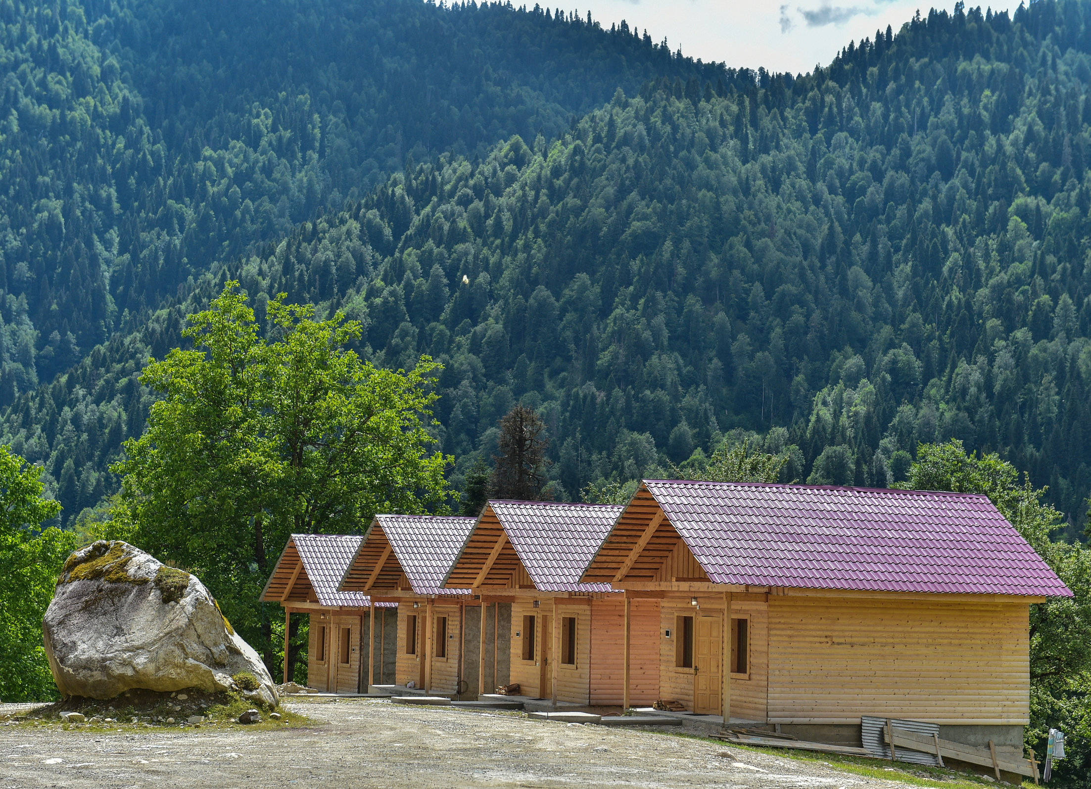 Guesthouse